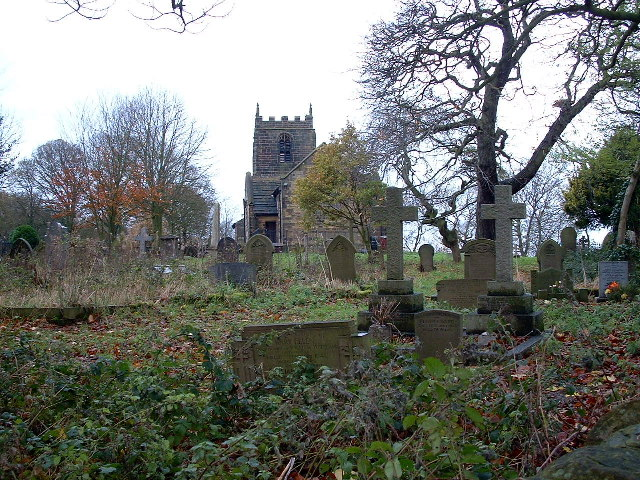 Churchyard and former parish church of All Hallows, High Hoyland, South Yorkshire, seen from the east